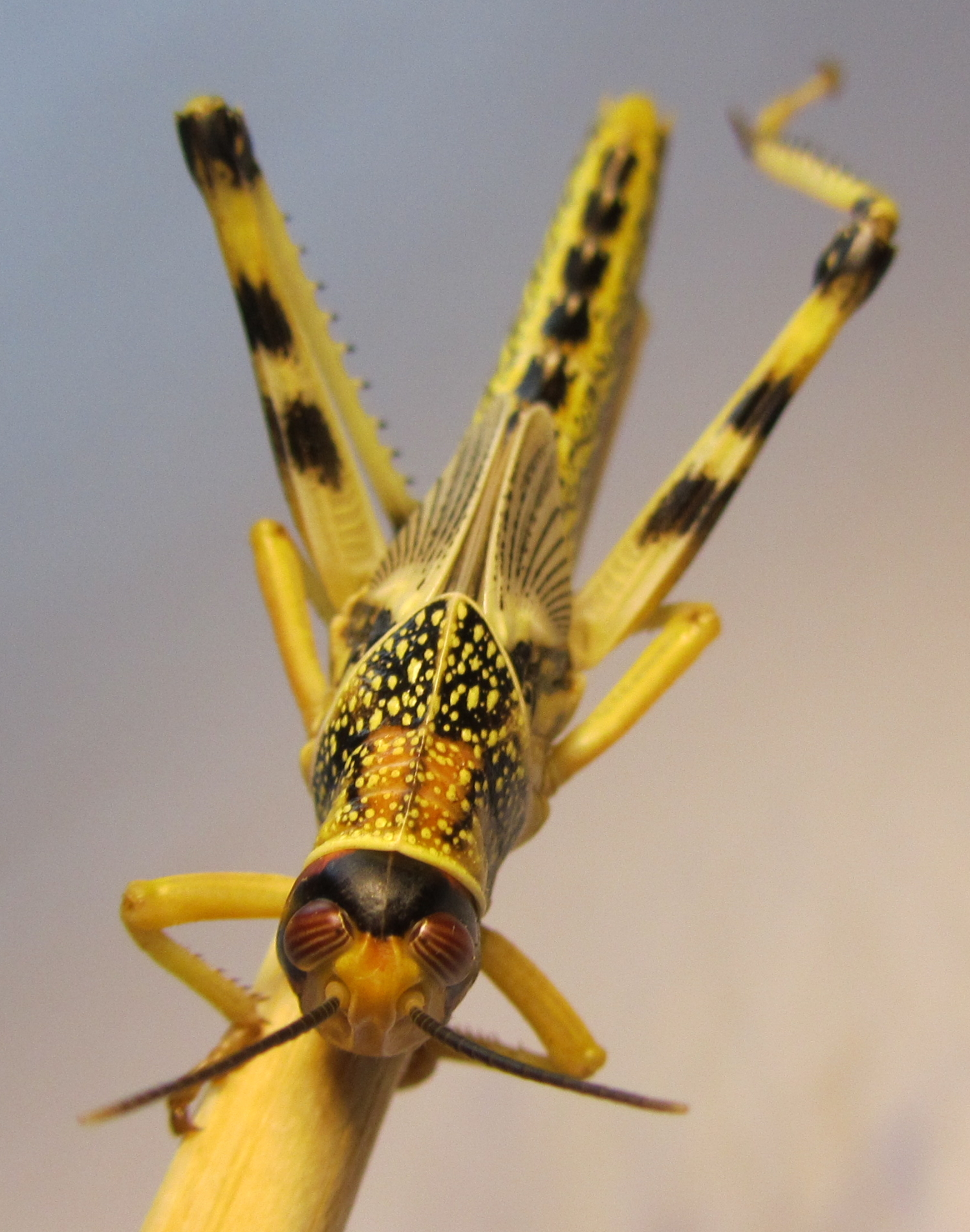 Schistocerca gregaria, Desert locust subadult